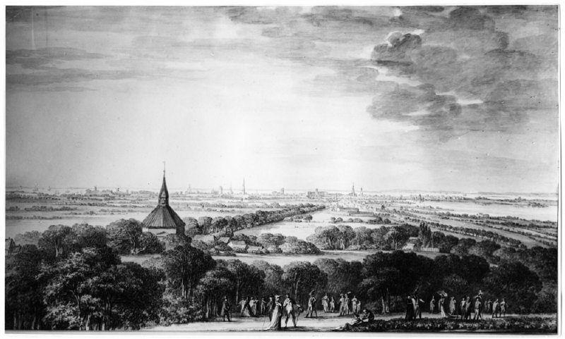 Biew from Frederiksberg Slot towards Copenhagen with Frederiksberg Church in the foreground.